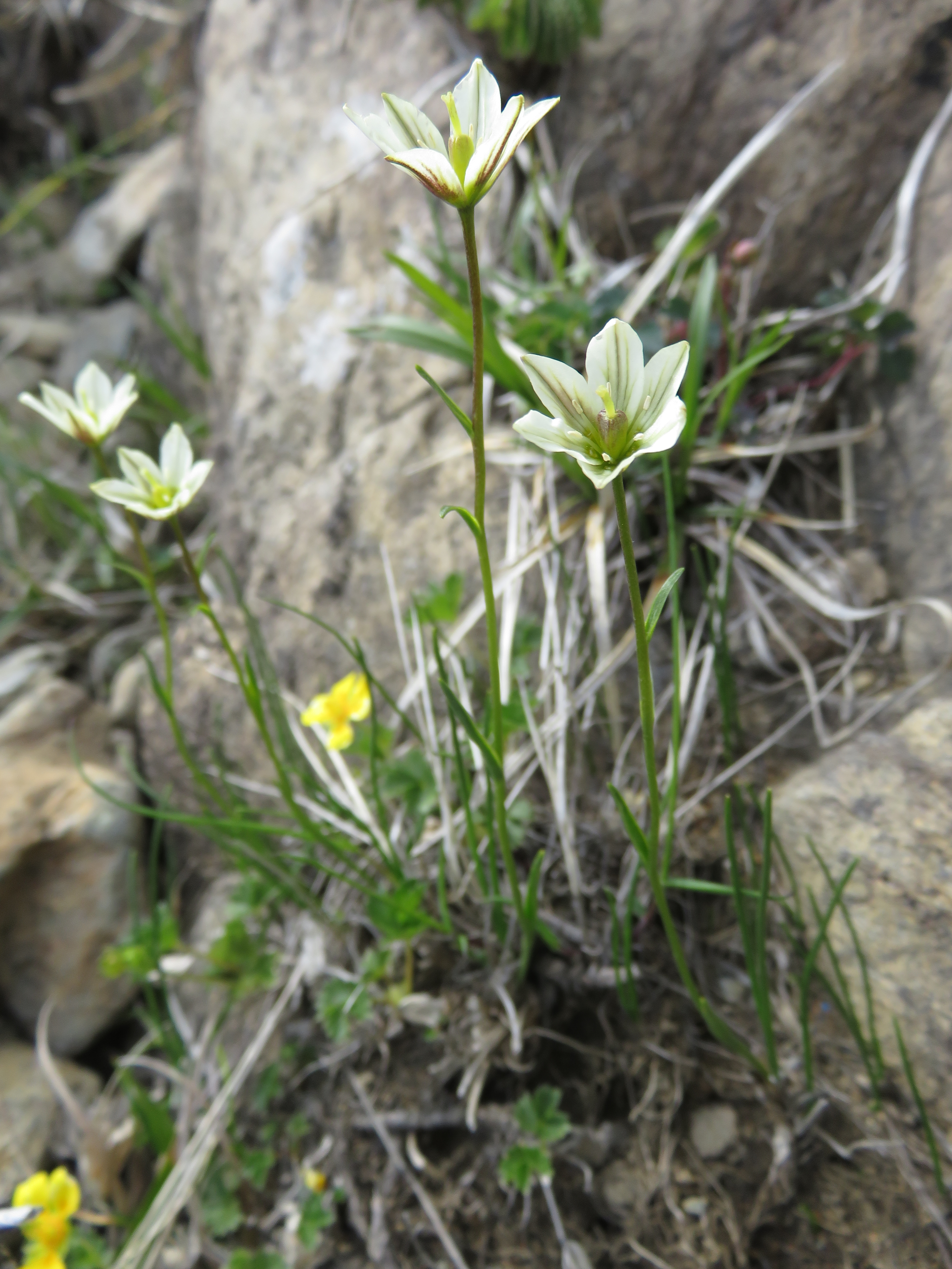 Lloydia serotina, Mount Hayachine, Iwate pref., Japan